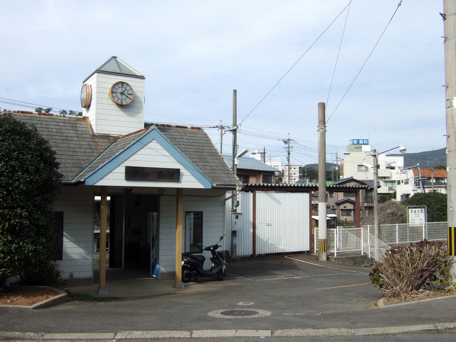 松浦鉄道山の田駅（Matsuura Railway Yamanota Station）